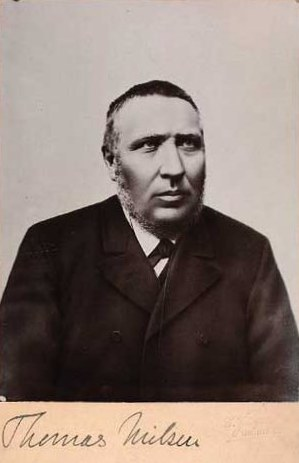 Thomas Nielsen (1838-1895), Danish educator and politician, MP